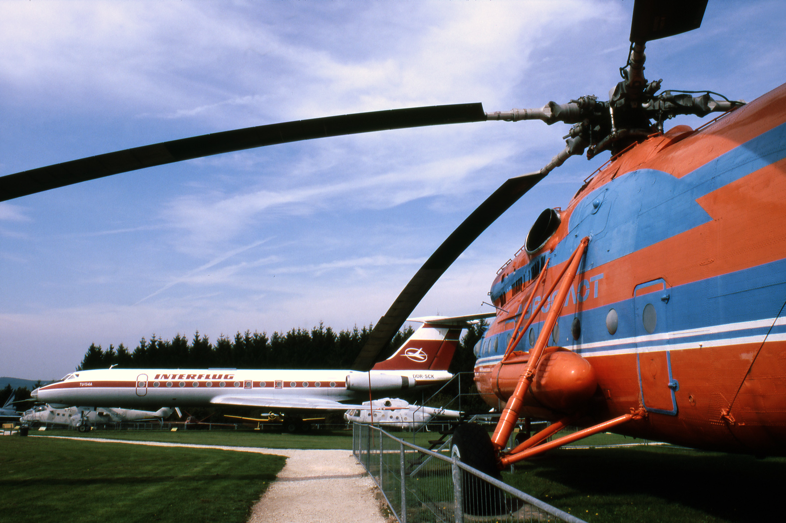 Aircraft exhibition, Mil Mi-6A RA 21133 Aeroflot and Tupolev Tu-134A DDR-SCK Interflug; Hermeskeil, Rhineland-Palatinate, Germany